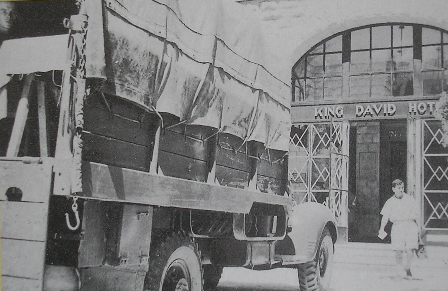 The picture was taken by me from a picture hung at the King David.